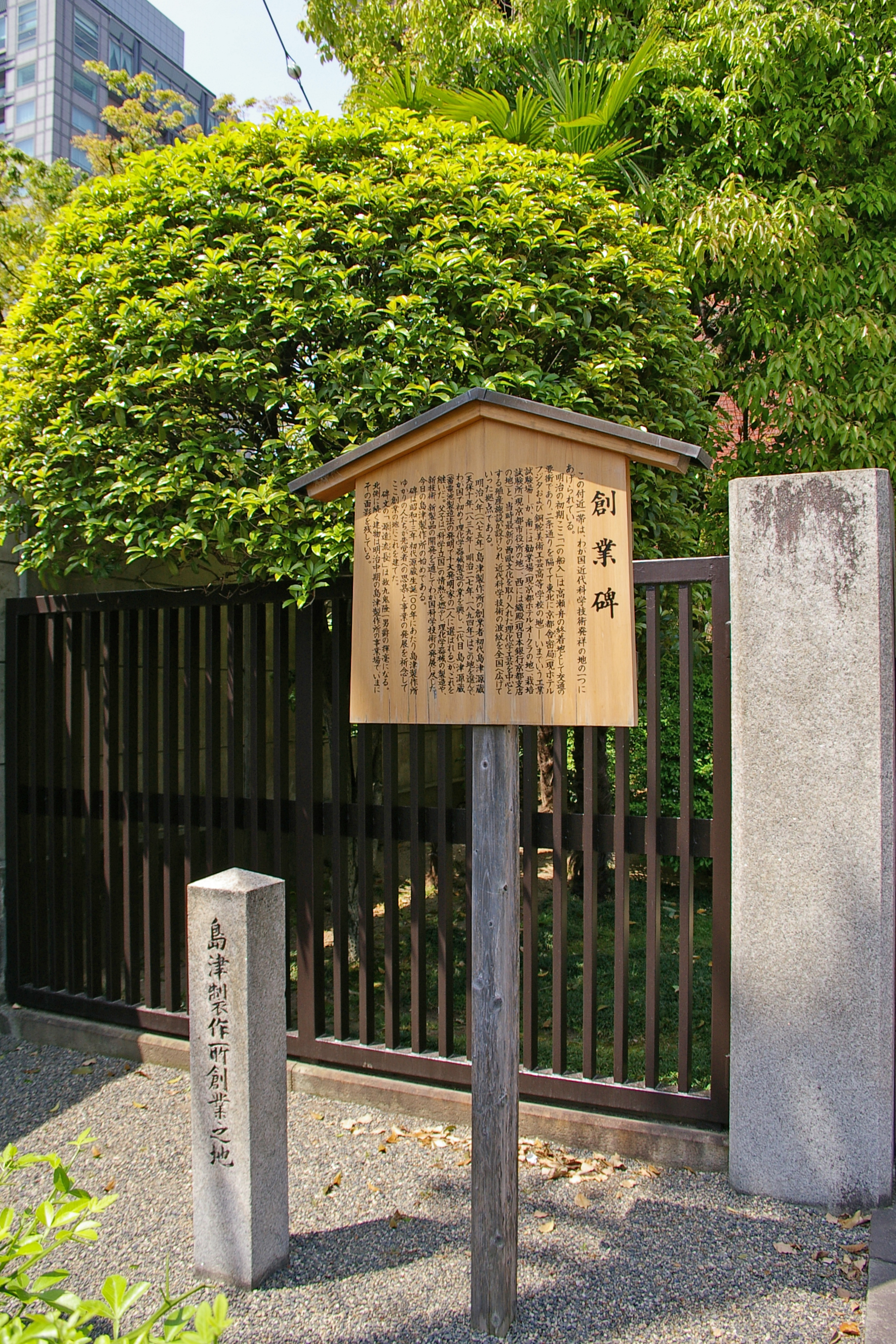 Photograph of the memorial stone of the foundation of Shimadzu Corporation in Nakagyo-ku, Kyoto, Kyoto Prefecture, Japan.